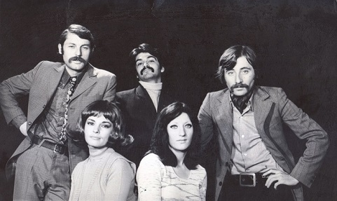 Bulgarian vocal formation "Studio W".